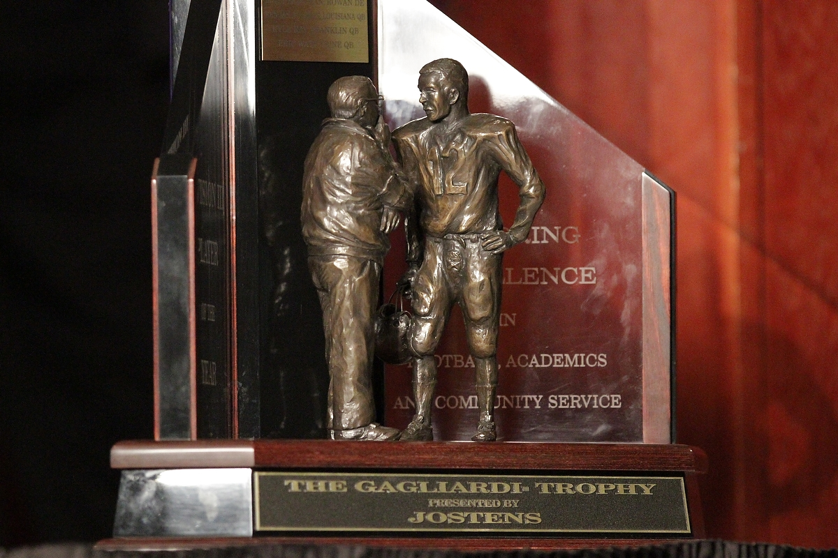 The Gagliardi Trophy, given to the top scholar/athlete in NCAA Division III football, is awarded by the St. John's University (Minnesota) J-Club and Jostens, Inc.